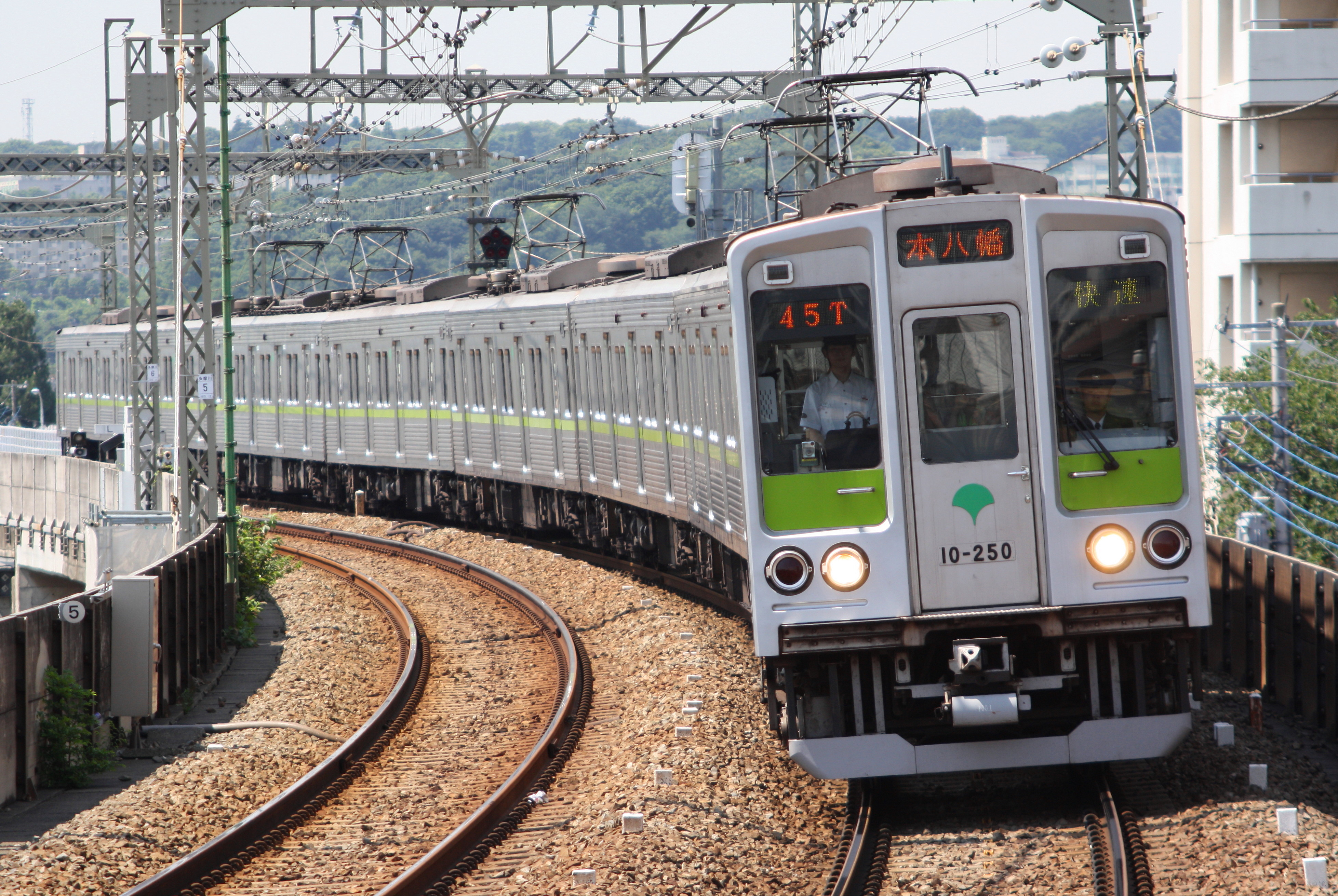 Toei 10-000 series 7th-batch EMU set 10-250 at Keio Tamagawa Station